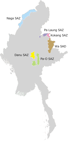 Self-Administered Zones (SAZ) and Self-Administered Division (SAD) of Myanmar (Burma).